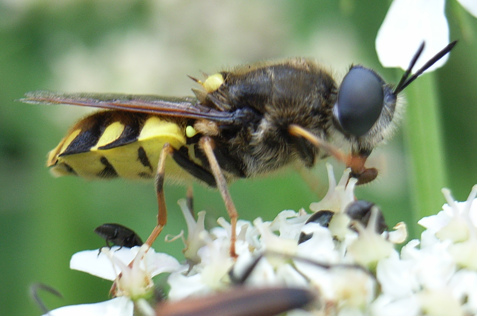 Male of Stratiomys chamaeleon